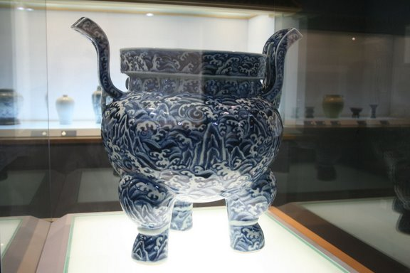 A Chinese Ming Dynasty (1368-1644 AD) blue-and-white porcelain ding vessel from the reign of the Xuande Emperor (1425-1435 AD).